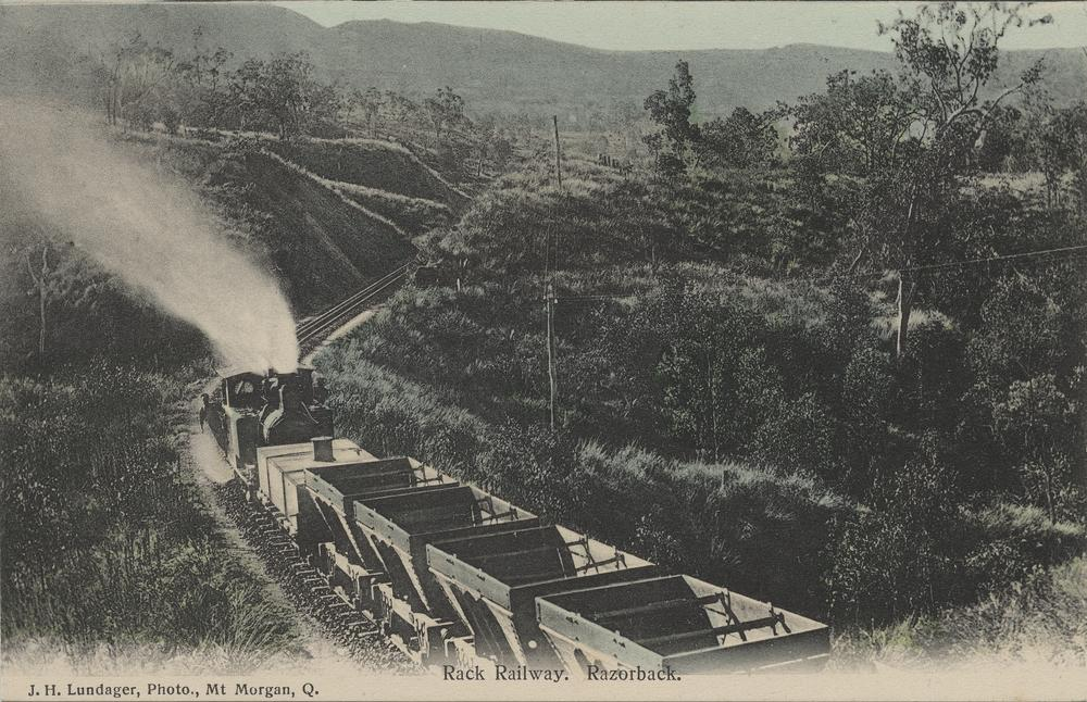 Coal train travelling along the rack railway on Razorback Range, Mount Morgan, ca. 1905.